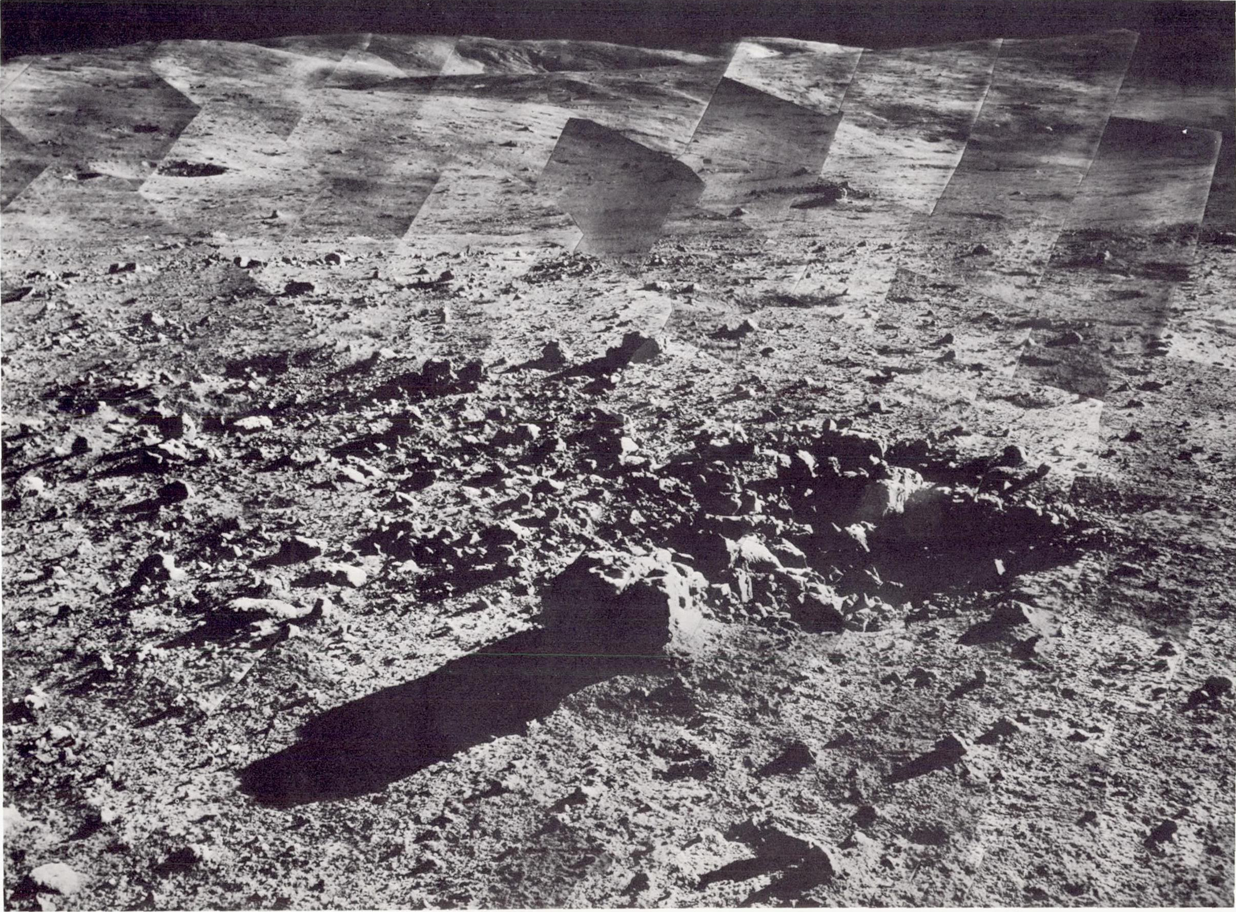 Lunar surface imaged by Surveyor 7. Figure 7-41 of NASA SP-184, caption reads: FIGURE 7-41.-The panoramas of the mare areas were quite similar. Although more rocks, hills, and steeper slopes occur north of Tycho, the general morphology is similar to that of the maria. (a) Surveyor I (b) Surveyor III (c) Surveyor V (d) Surveyor VI (e) Surveyor VII.